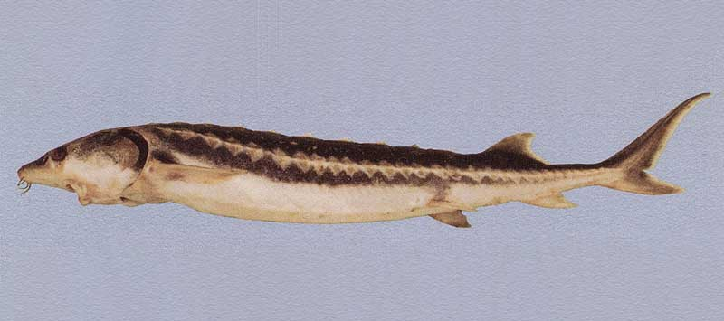 Persian sturgeon (Acipenser persicus) from Iran (From Kottelat M. and Freyhof J. (2007) Handbook of European freshwater fishes. Kottelat, Cornol, Switzerland and Freyof, Berlin, Germany (modified).)